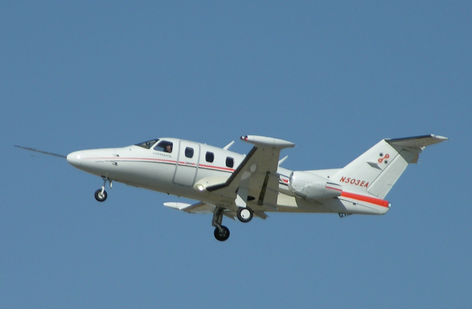 Elipse 500 flight test aircraft, Mojave Airport